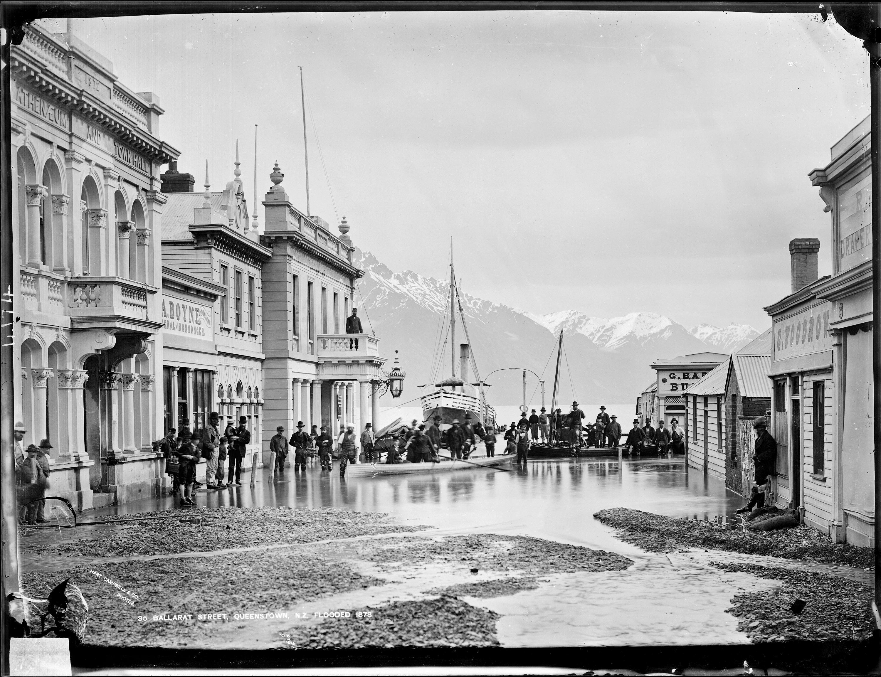 A view of Ballarat Street (also known as The Mall), Queenstown in 1878 showing the flooding.